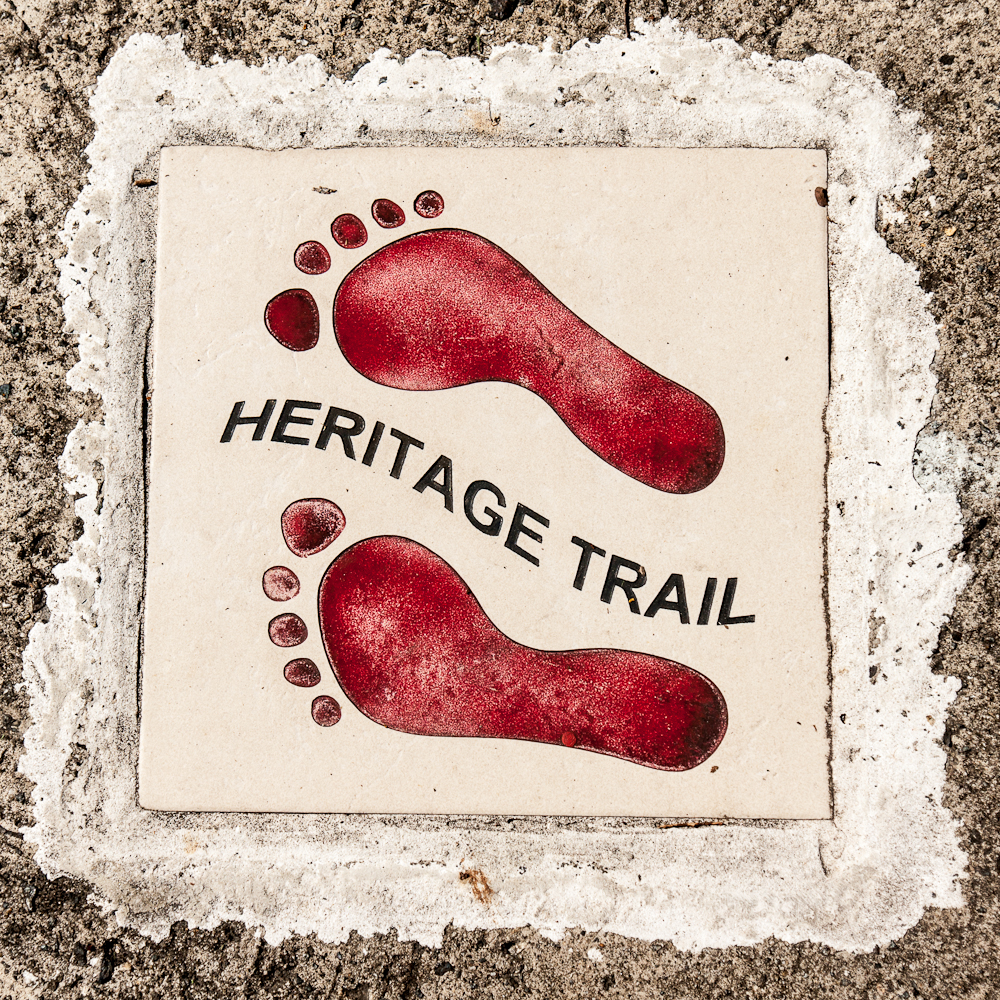 Marker of the Heritage Trail Sandakan